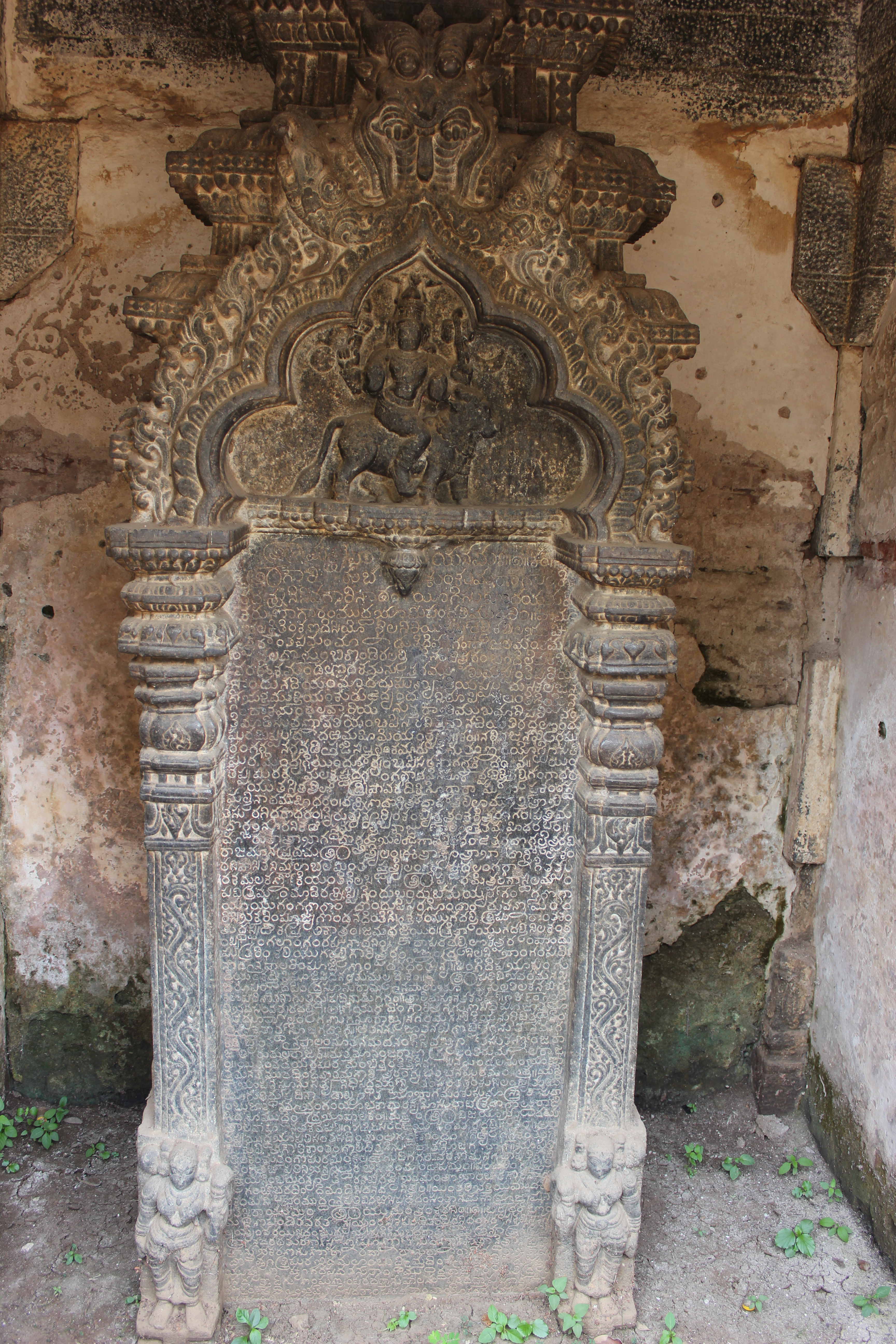 This photograph was taken by me at the Gaurishvara temple (also spelt Gaurishwara or Gaurisvara) at Yelandur, Chamarajanagar district, Karnataka state, India. The inscription which belongs to the 17th century (1654 A.D.) calls the town Eleyindur ("town of the young moon") and compares it to the center or eye of a lotus surrounded by eight petals, which are the eight hills in the surrounding country. Source:Mysore, Mysore by districts, Benjamin Lewis Rice, Gazetteer Compiled for Government, volume 2, p.319, published by Woodfall and Kinder, London, 1897; Imperial Gazetteer of India, Sir William Wilson Hunter and James Sutherland, p.419, vol xxiv, 1908, Oxford University, London; Mysore inscriptions, pg.333,Benjamin Lewis Rice, Mysore Government Press, 1879